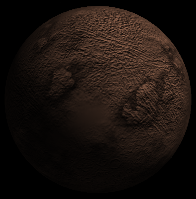 Rendered image of 28978 Ixion using Celestia.